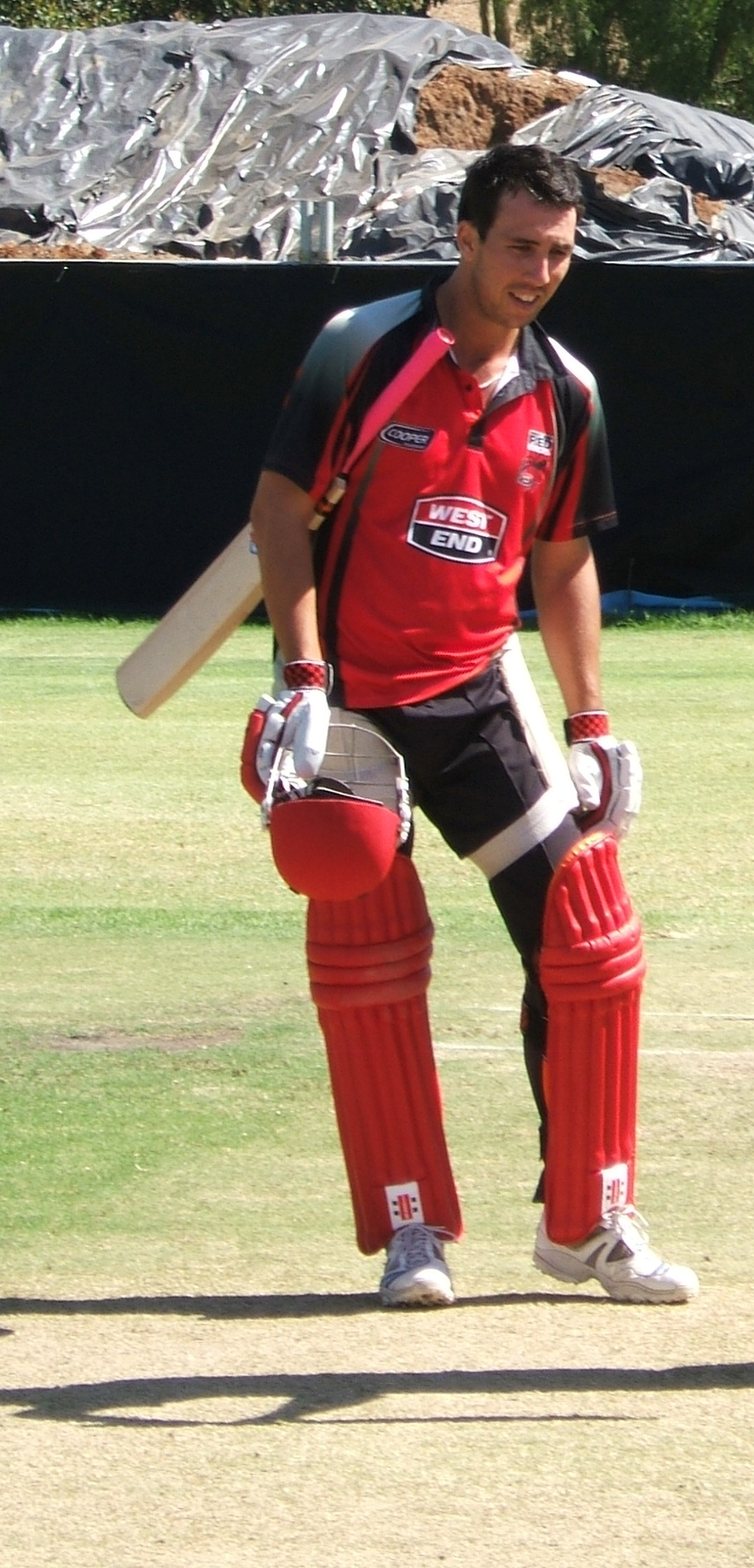 Named person engaging in named action at Adelaide Oval nets/training ground